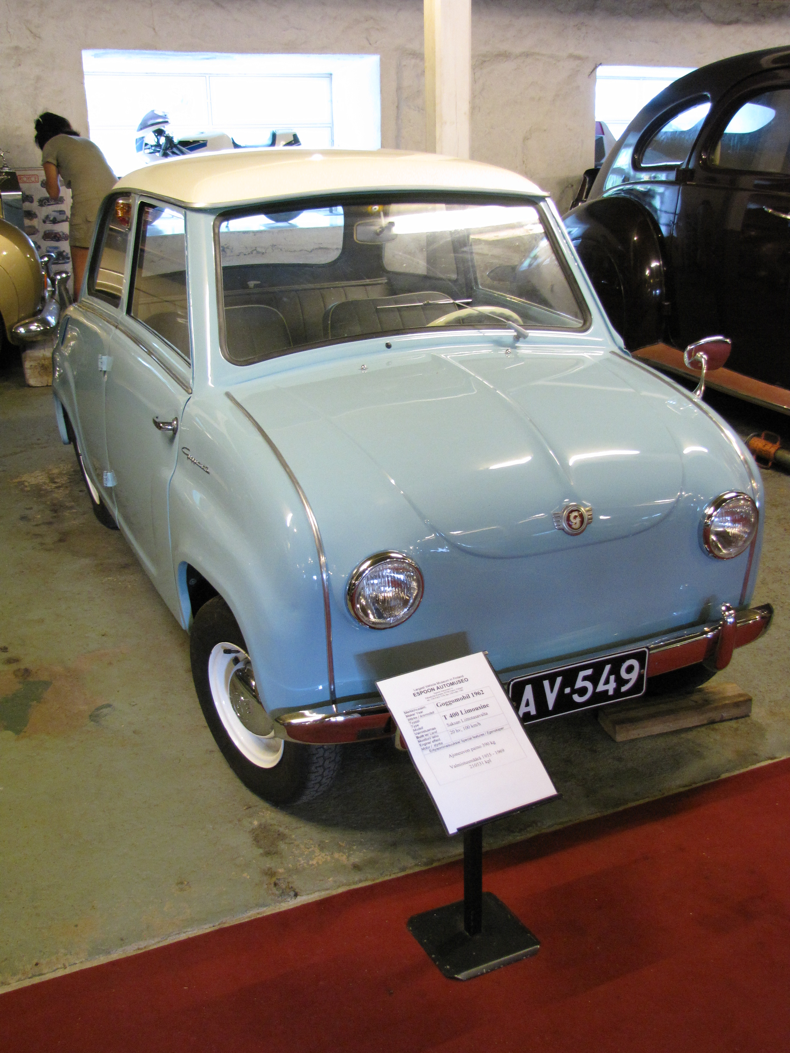 Goggomobil T 400 Limousine model 1962. Photographed in Espoo Automobile Museum.